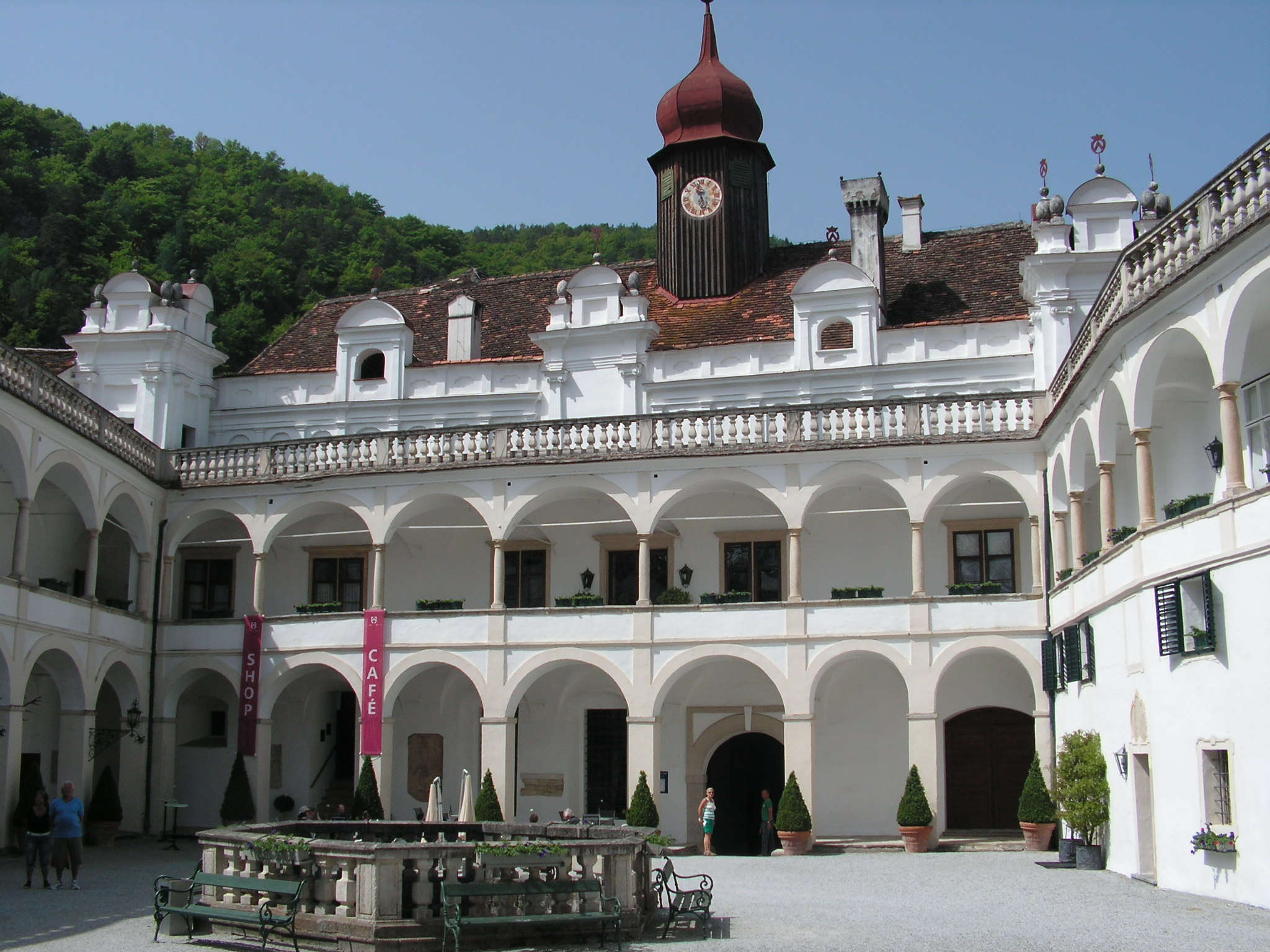 The Herberstein castle in the village of Sankt Johann bei Herberstei. True four-in-one place, as included in the price of the castle, a zoo, a museum Gironcoli, see the Feistritz gorge.